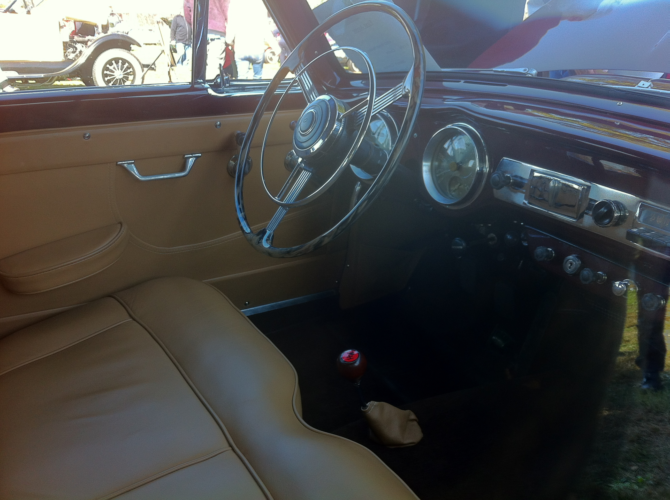 1953 Nash-Healey coupe - driver's cockpit interior view. Picture taken on the show field of the Antique Automobile Club of America (AACA) 2012 Hershey meet that is held every October in Pennsylvania.